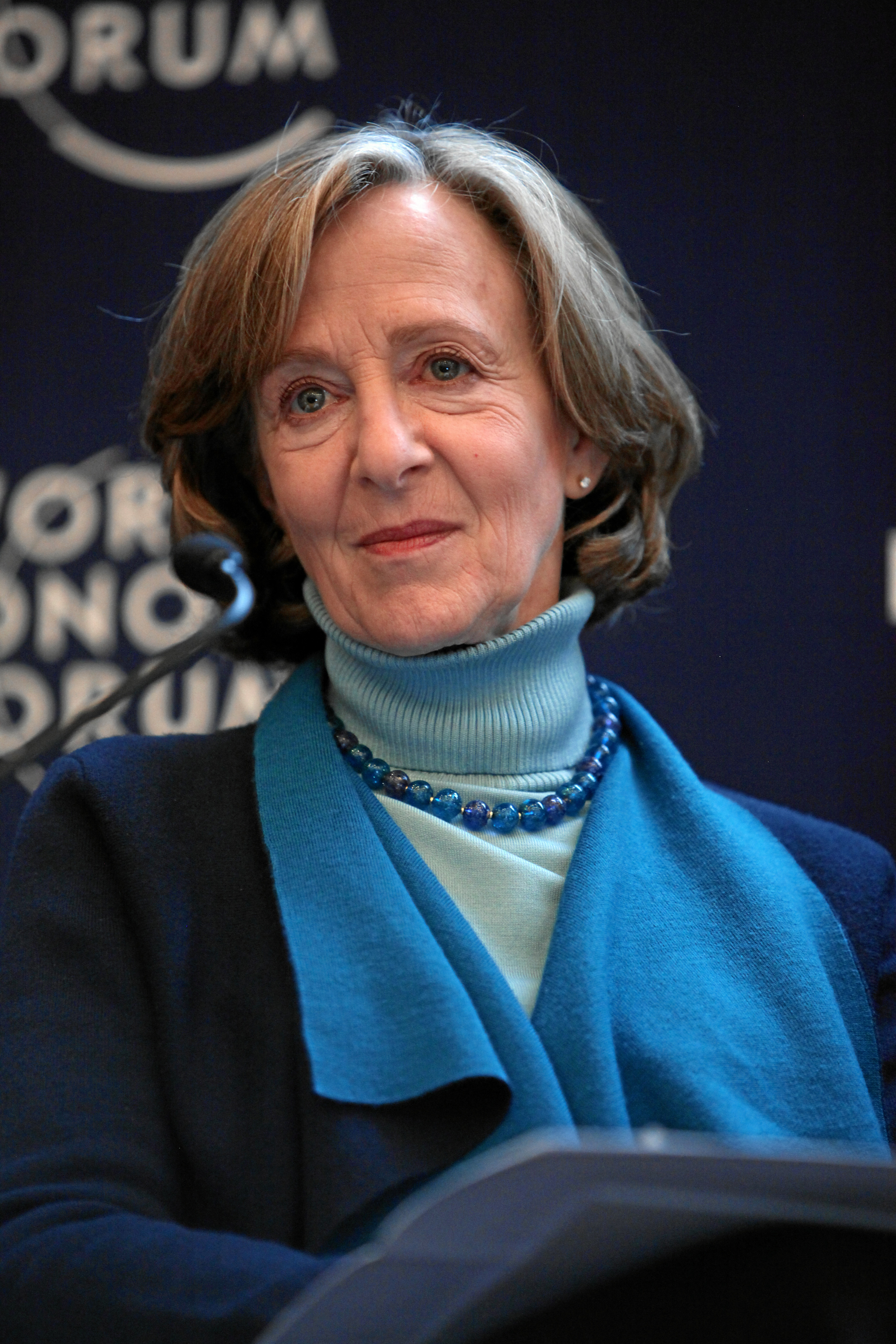 DAVOS/SWITZERLAND, 28JAN12 - Susan Hockfield, President, Massachusetts Institute of Technology (MIT), USA; Foundation Board Member, is captured during the session 'The Global Science Outlook' at the Annual Meeting 2012 of the World Economic Forum at the congress centre in Davos, Switzerland, January 28, 2012.. . Copyright by World Economic Forum. by Monika Flueckiger